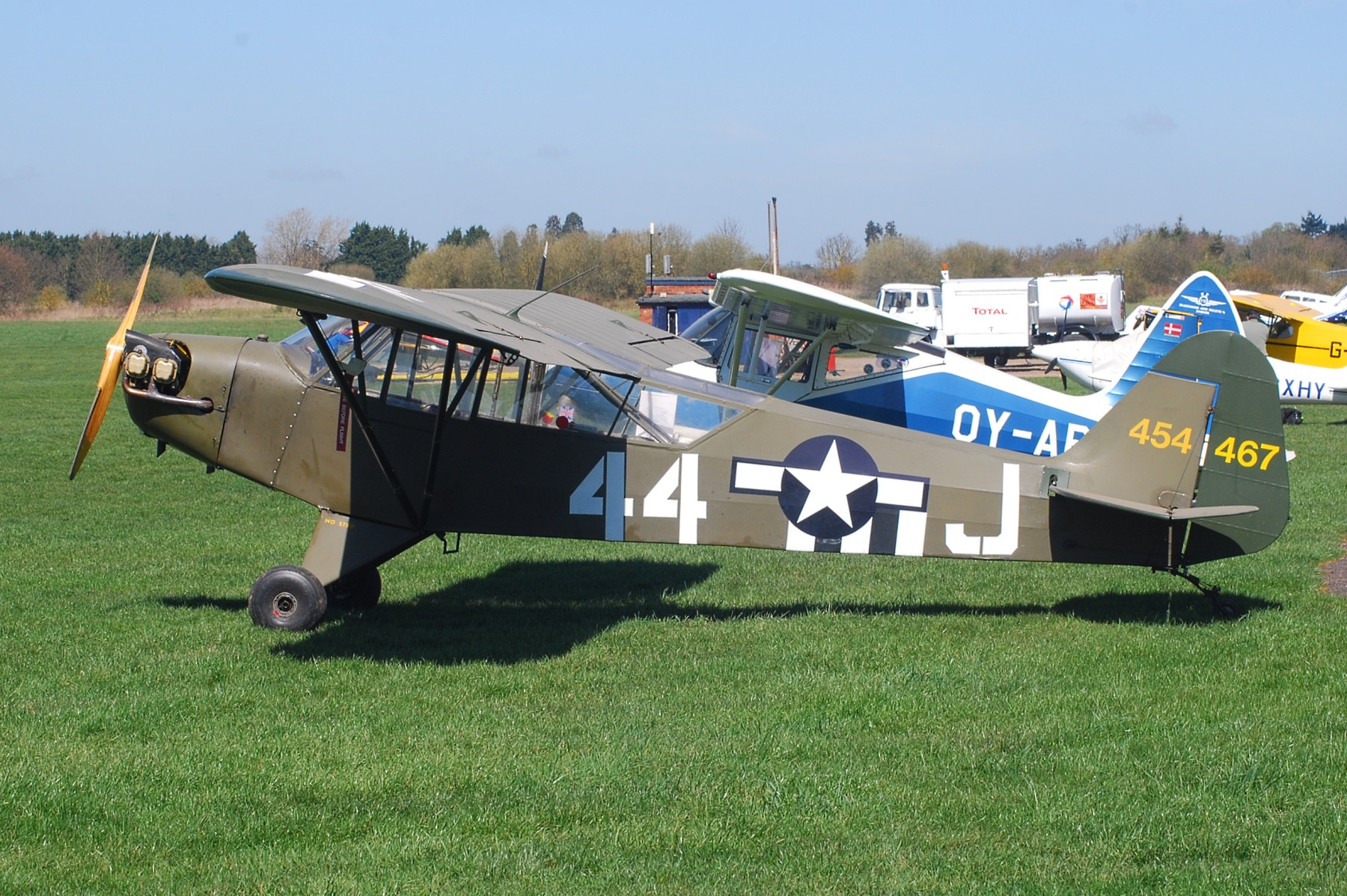 Piper L-4J cub at White Waltham